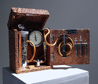 A photo of "Pneumothorax Machine" artwork by Anna Dumitriu